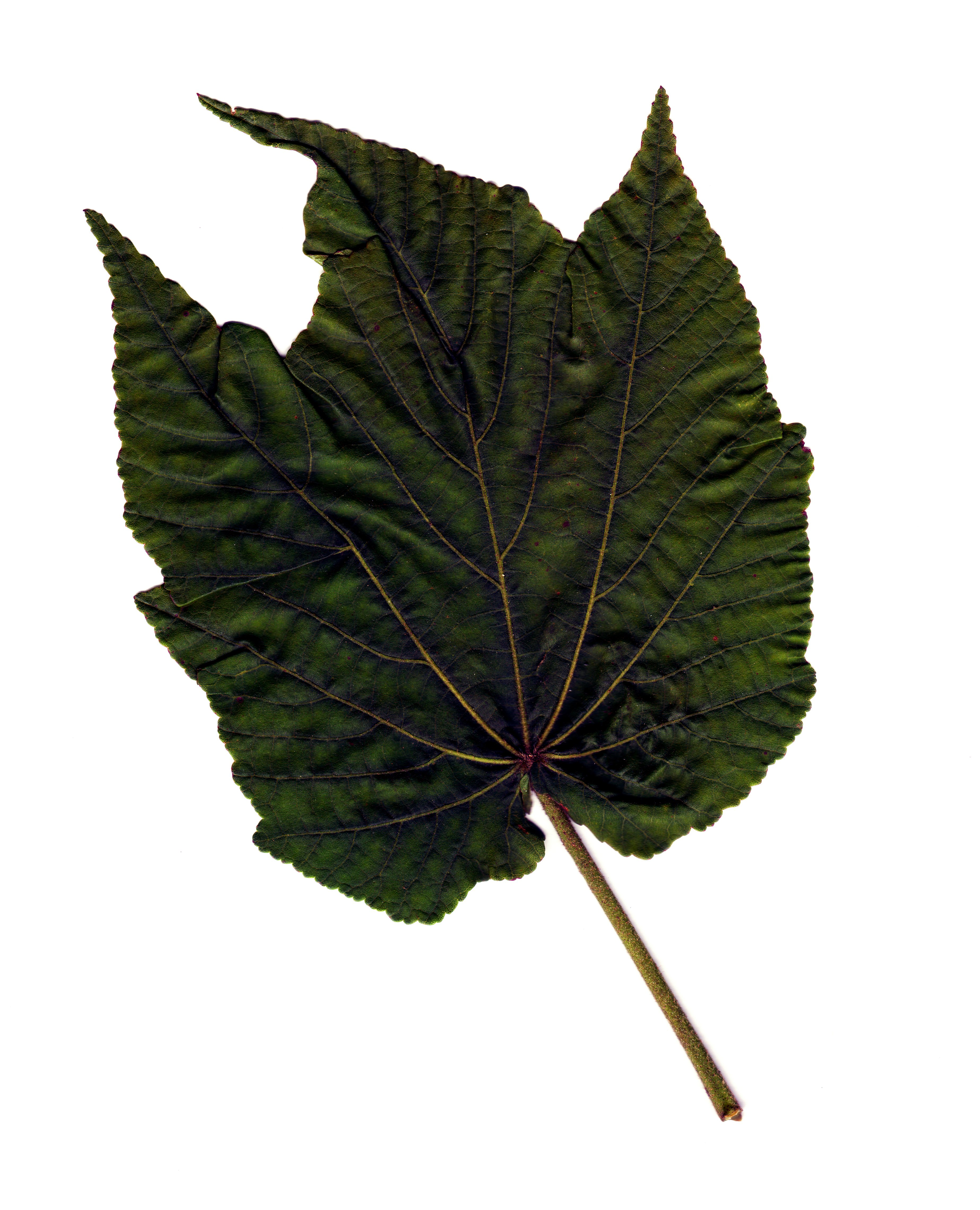 Scanned leaf of Dombeya acutangula